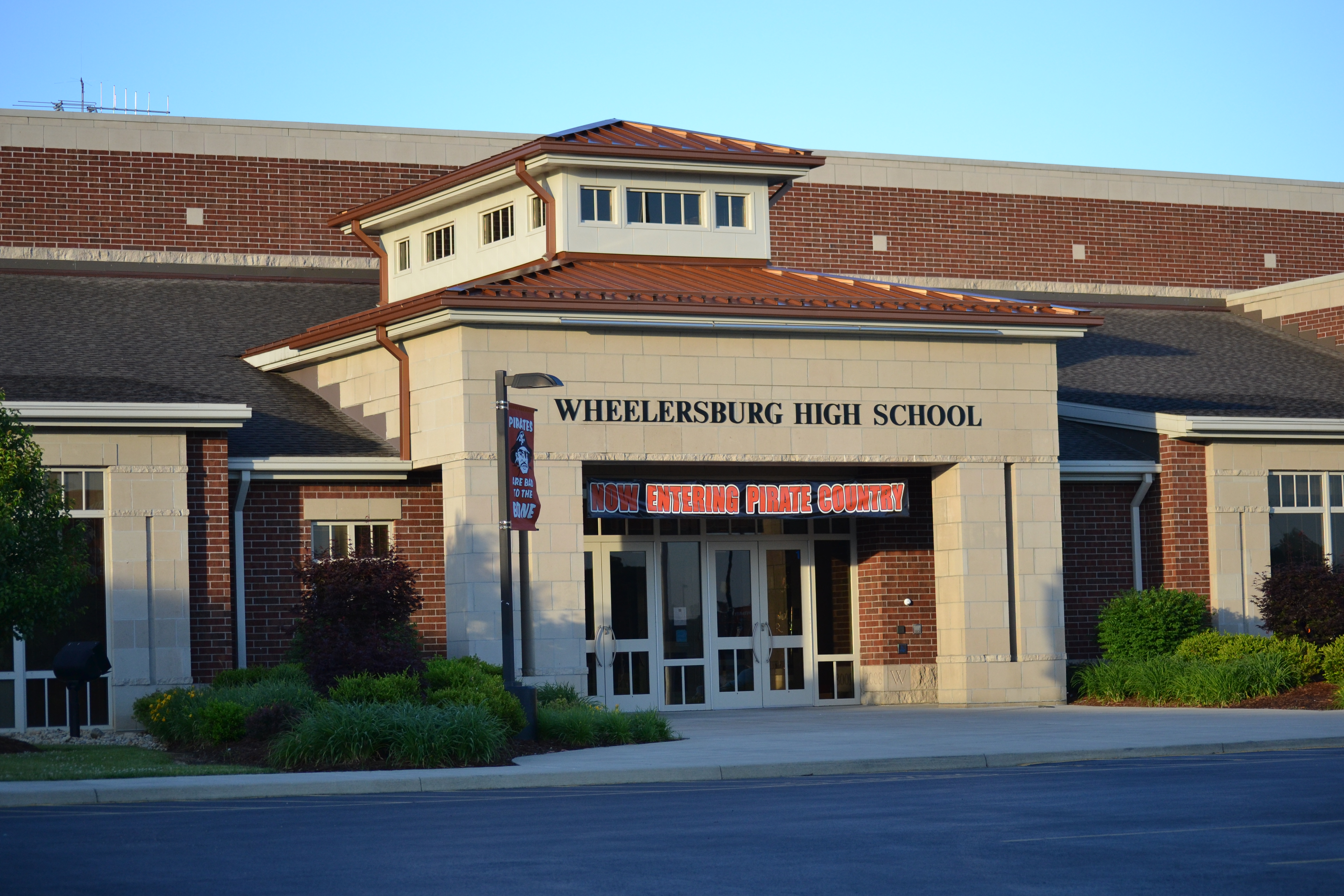 Main entrance to Wheelersburg High School, part of the K12 Wheelersburg school complex.